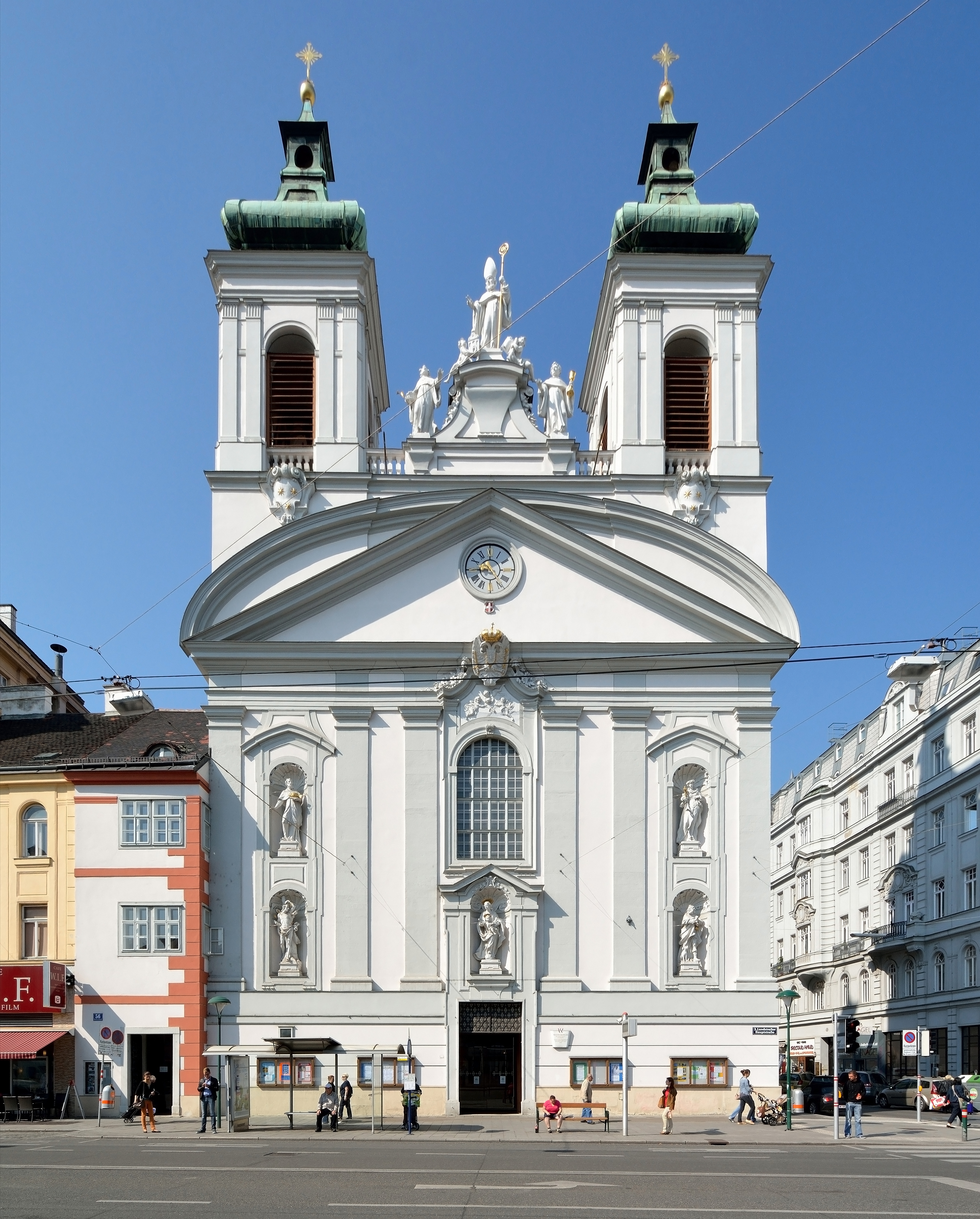 Catholic parish church Rochuskirche, 3rd district of Vienna